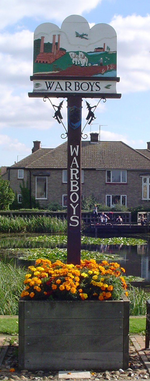 Signpost in Warboys